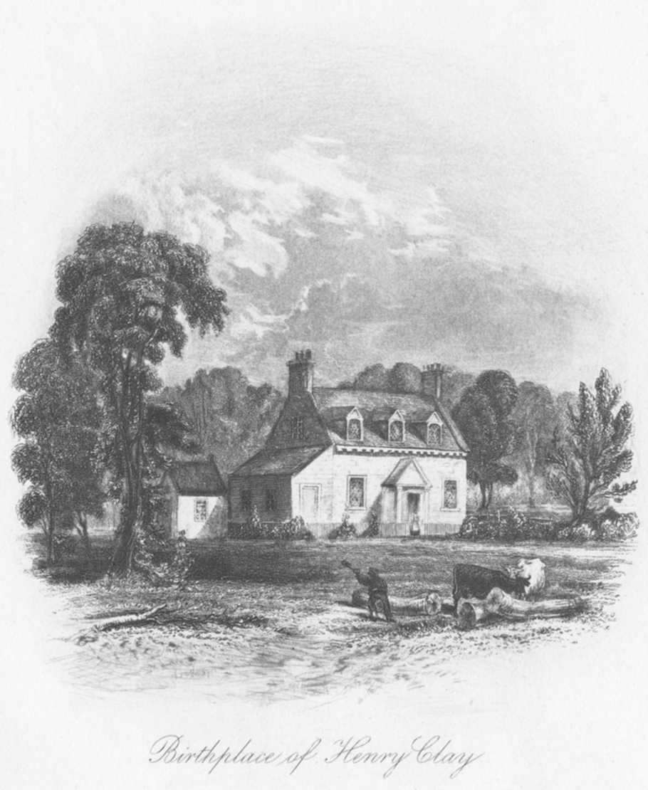 engraving depicting Henry Clay's birthplace in Hanover County, Virginia